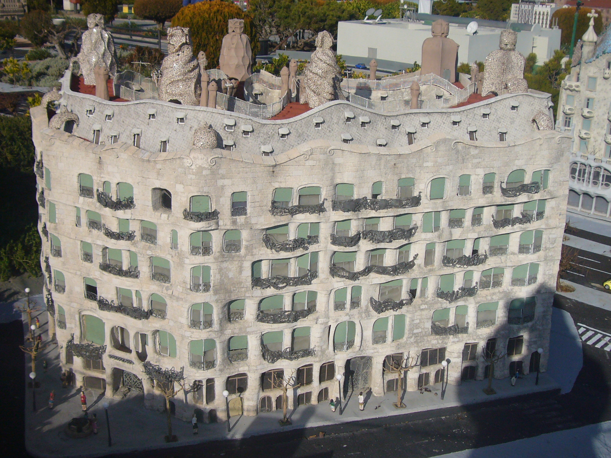 Scale model at the "Catalunya en Miniatura" miniature park : Casa Milà (La Pedrera)